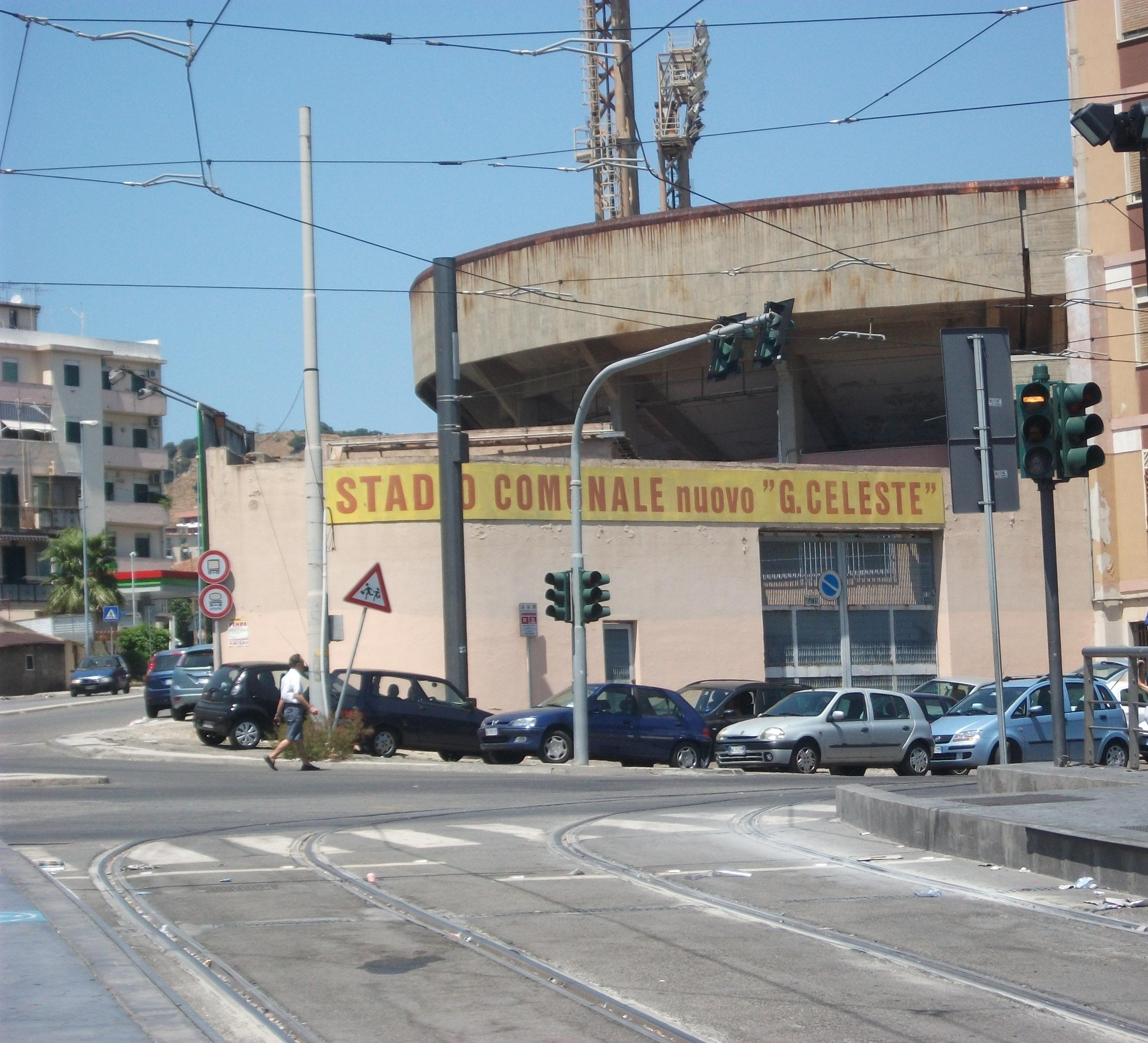 Entrance of Giovanni Celeste Stadium, in Messina, viewed from "Gazzi" stop of tram service